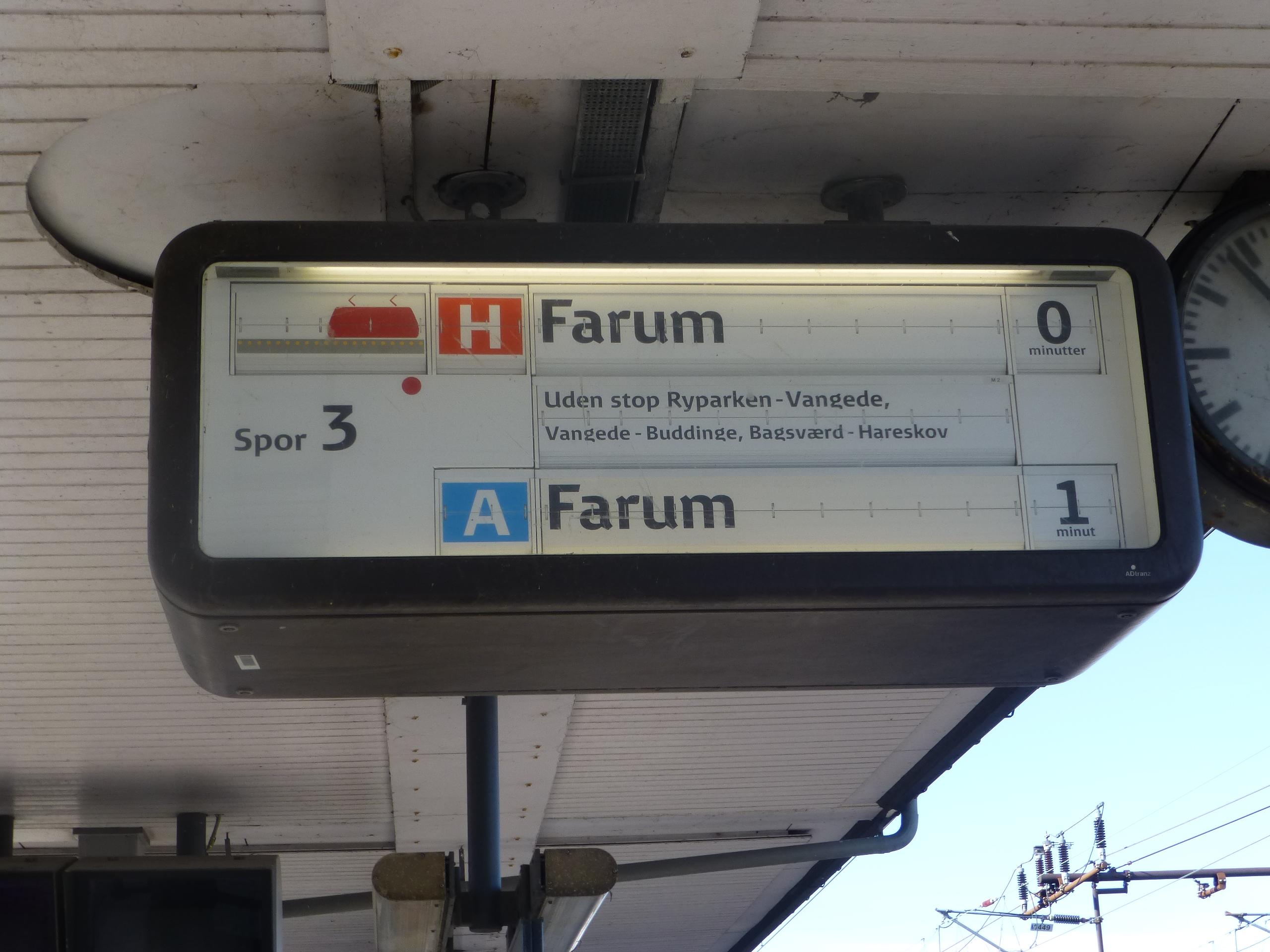 Split-flap display at Nordhavn Station, Copenhagen. Line H doesn't stop at several stations on it's way for Farum.